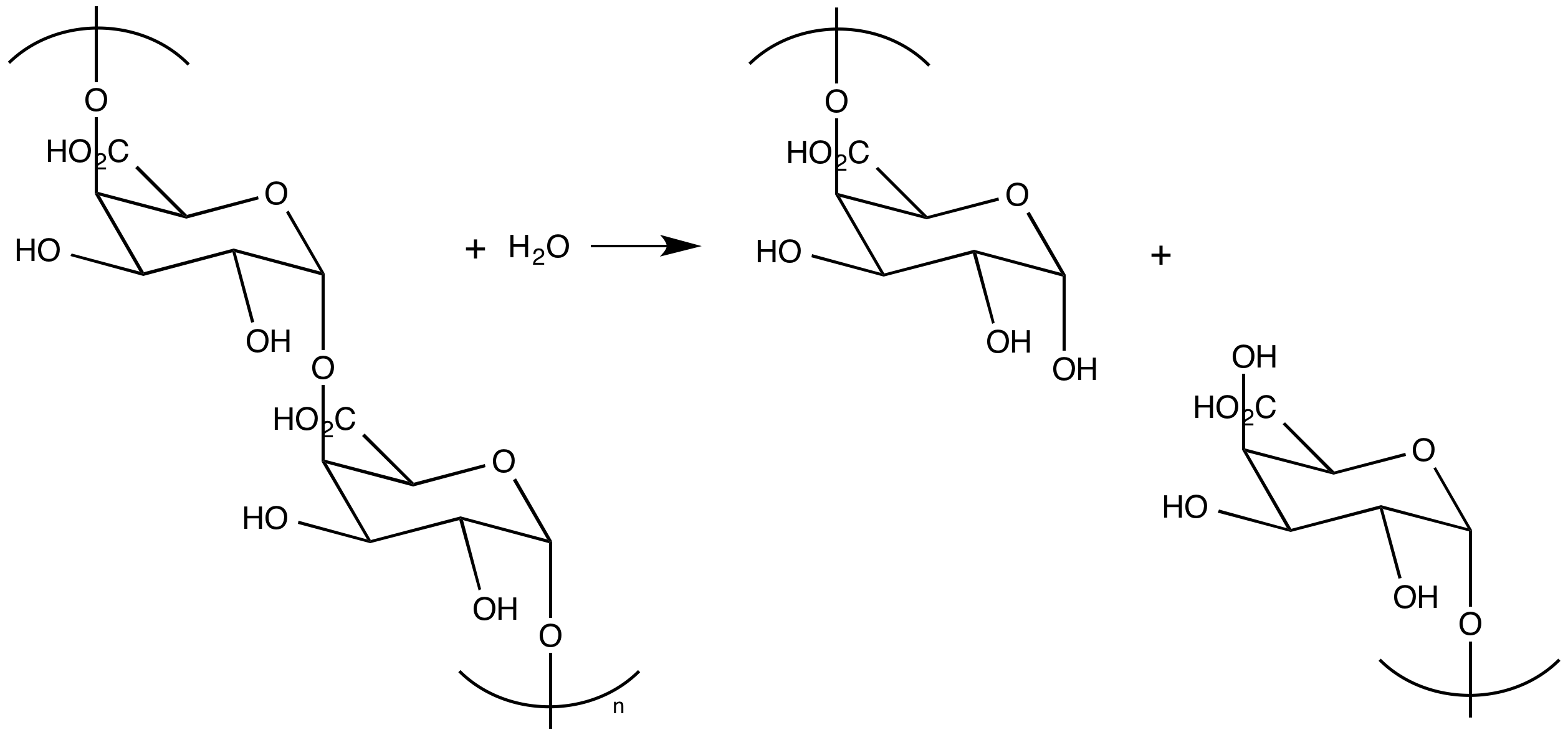 The mechanism scheme for the hydrolysis prompted by PG